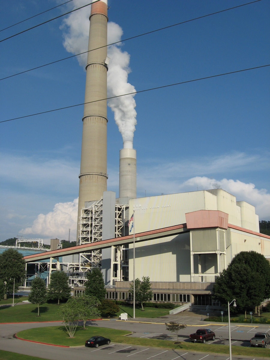 Picture of Bull Run Fossil Plant taken from viewing area to the North of the plant - capturing portrait frame with most of the chimney.